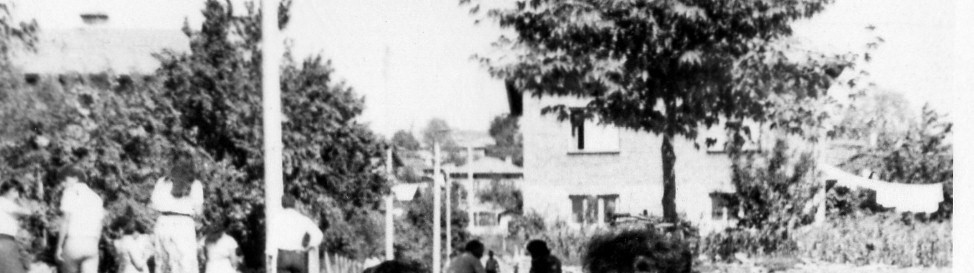 Old photo of the village of Tuhovishta in the middle 80's